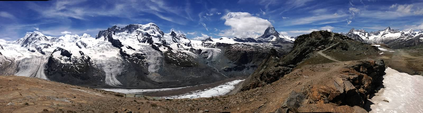 Matterhorn Panorama from Gornergrat